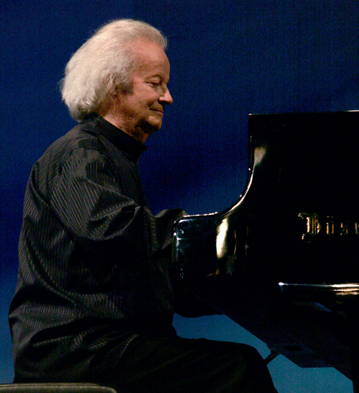 Gérard Jouannest; concert with Juliette Gréco at the opening of the Vienna Festival 2009